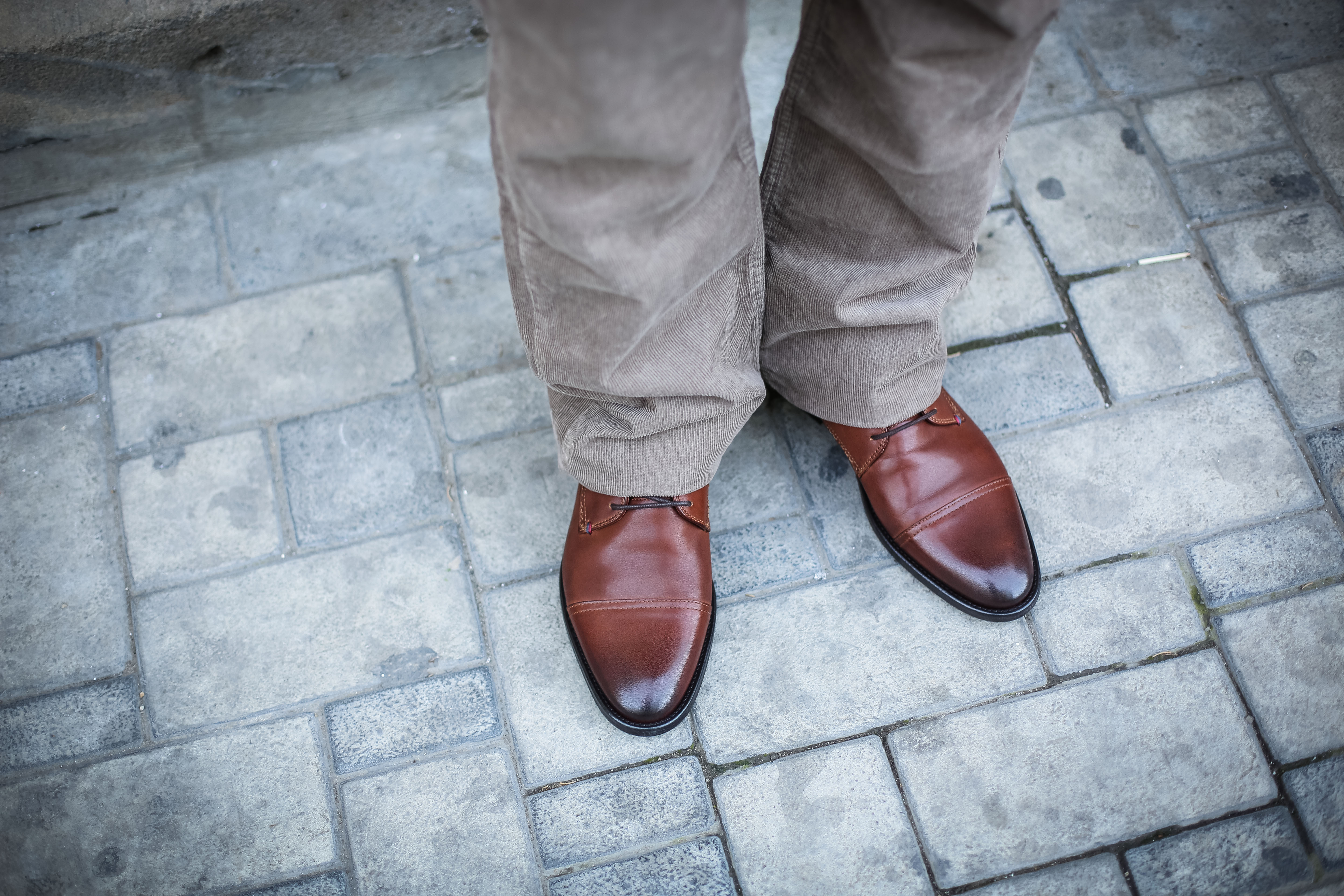 Tommy Hilfiger Azerbaijan